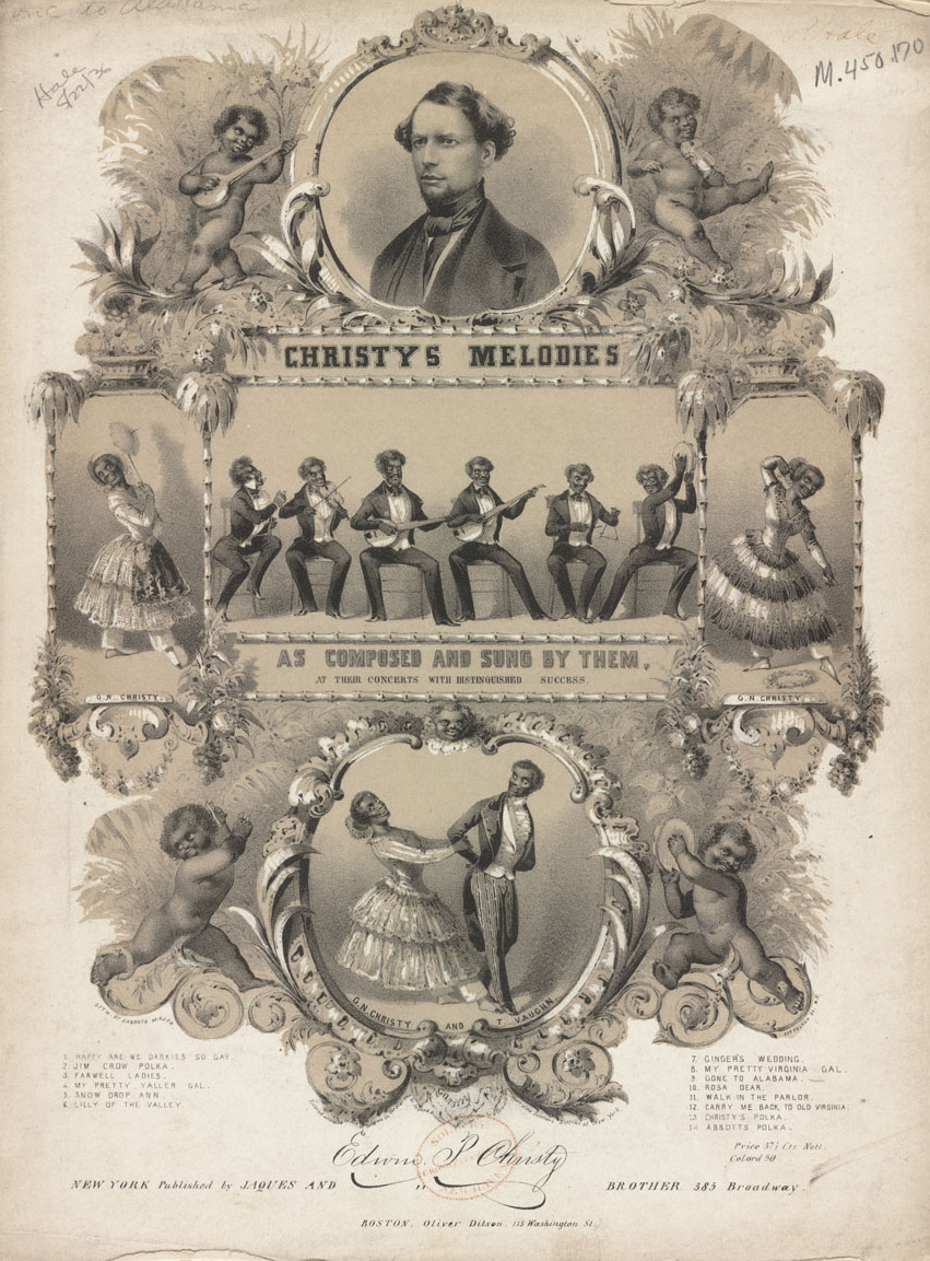 Accession No.: 07_07_000075 Call Number: no. 2 of **M.450.170.2 Lithographer: Sarony, Napoleon & Major, Henry B. Title of Lithograph: Christy Minstrels Composer: Christy, E.P. Title of Composition: Gone to Alabama Place of Publication: Boston Publisher: Oliver Ditson Date: 1847 BPL Department: Music Flickr data on 2011-08-05: Camera: Sinar AG Sinarback 54 FW, Sinar m Tags: Minstrelsy, dc:identifier=07_07_000075 License: CC BY 2.0 User: Boston Public Library BPL